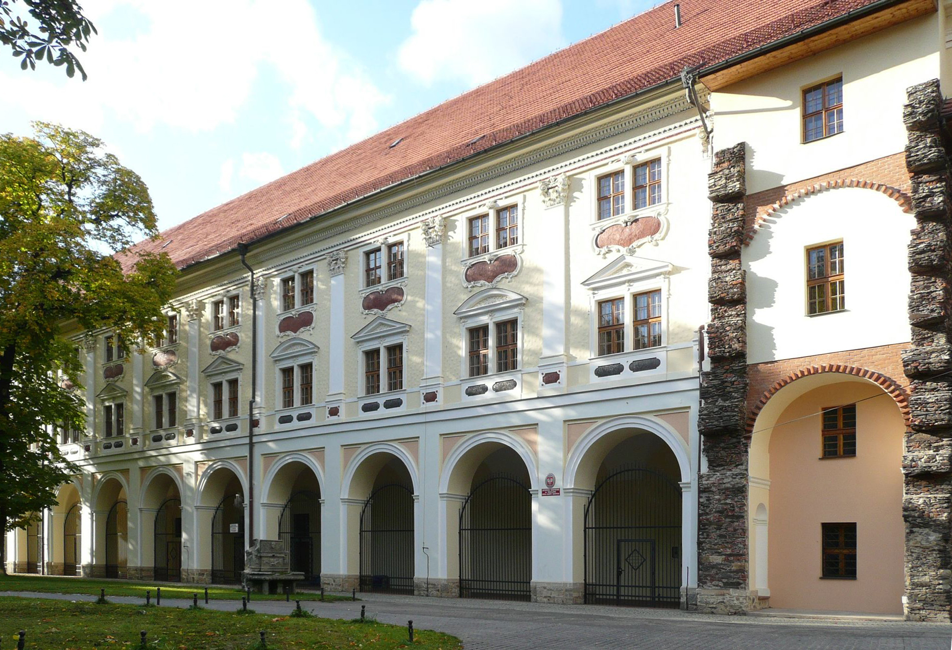 Building of former Kamieniec Zabkowicki abbey